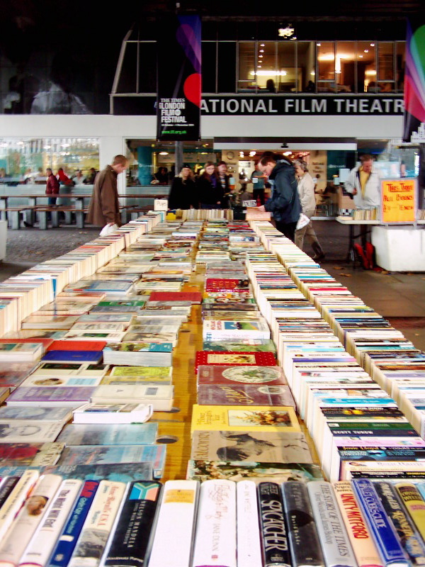 National Film Theatre Used Book Sale.